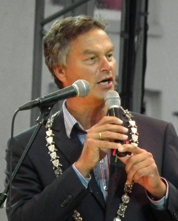 Mayor of Haarlem, The Netherlands, Mr. Bernt (B.B.) Schneiders, during opening of Haarlem Jazz Stad on August 18, 2010